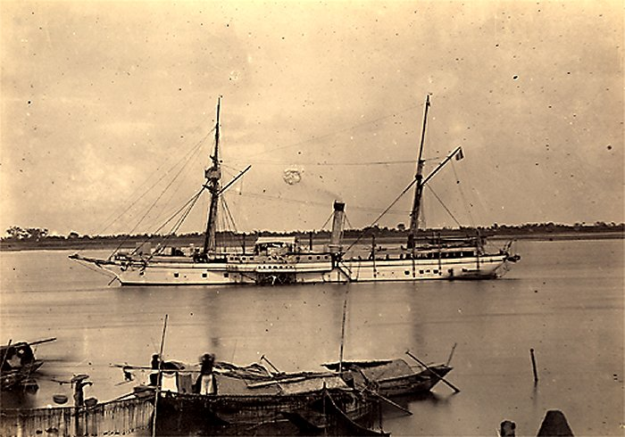 The French gunboat Pluvier in Tonkin, 1884